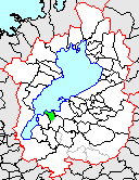 Map of Chuzu, Shiga, Japan.